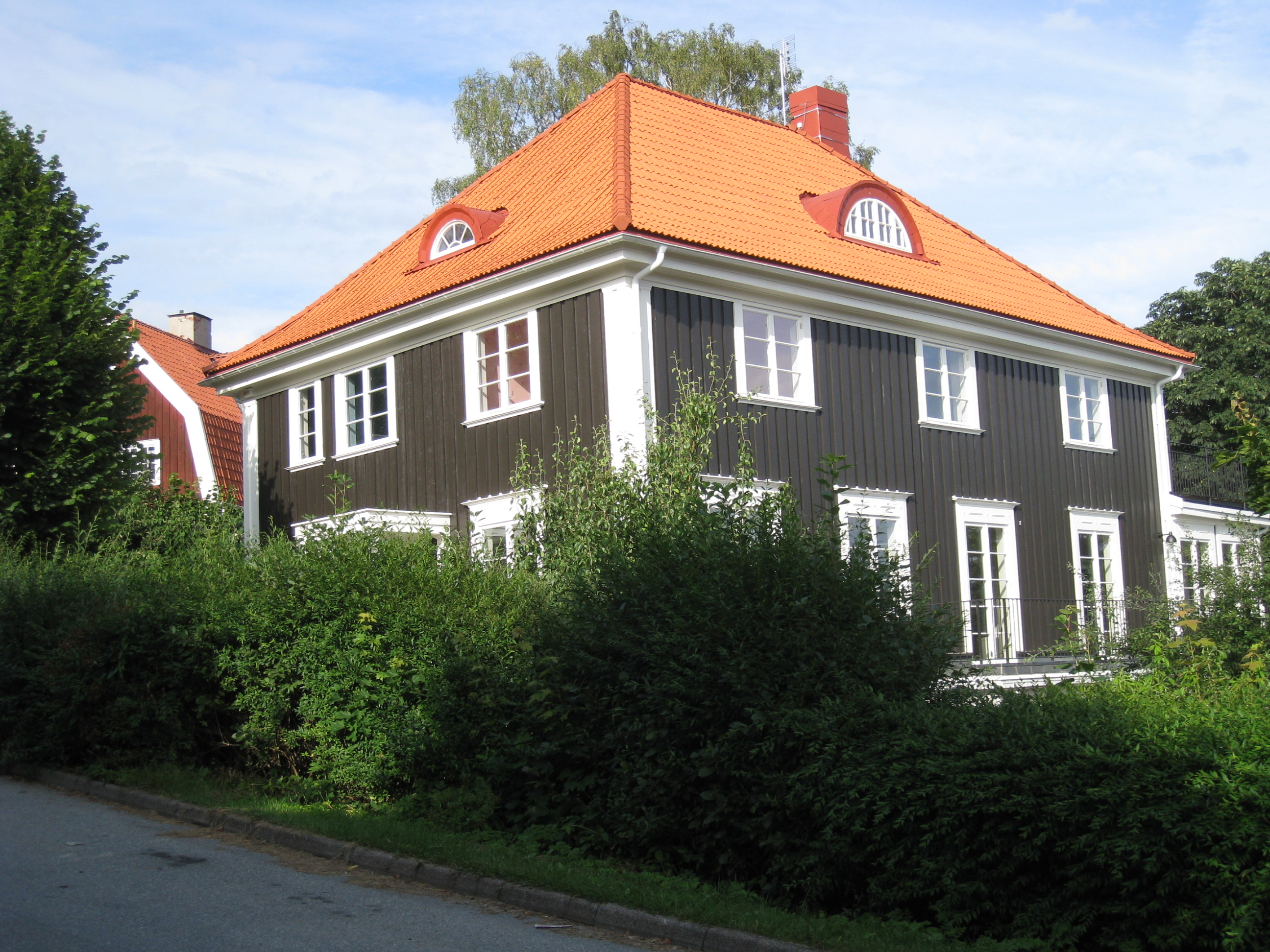 The villa of lord mayor Carl Lindhagen in 1914-1926, Poppelvägen 12, Äppelviken, in Bromma outside Stockholm.